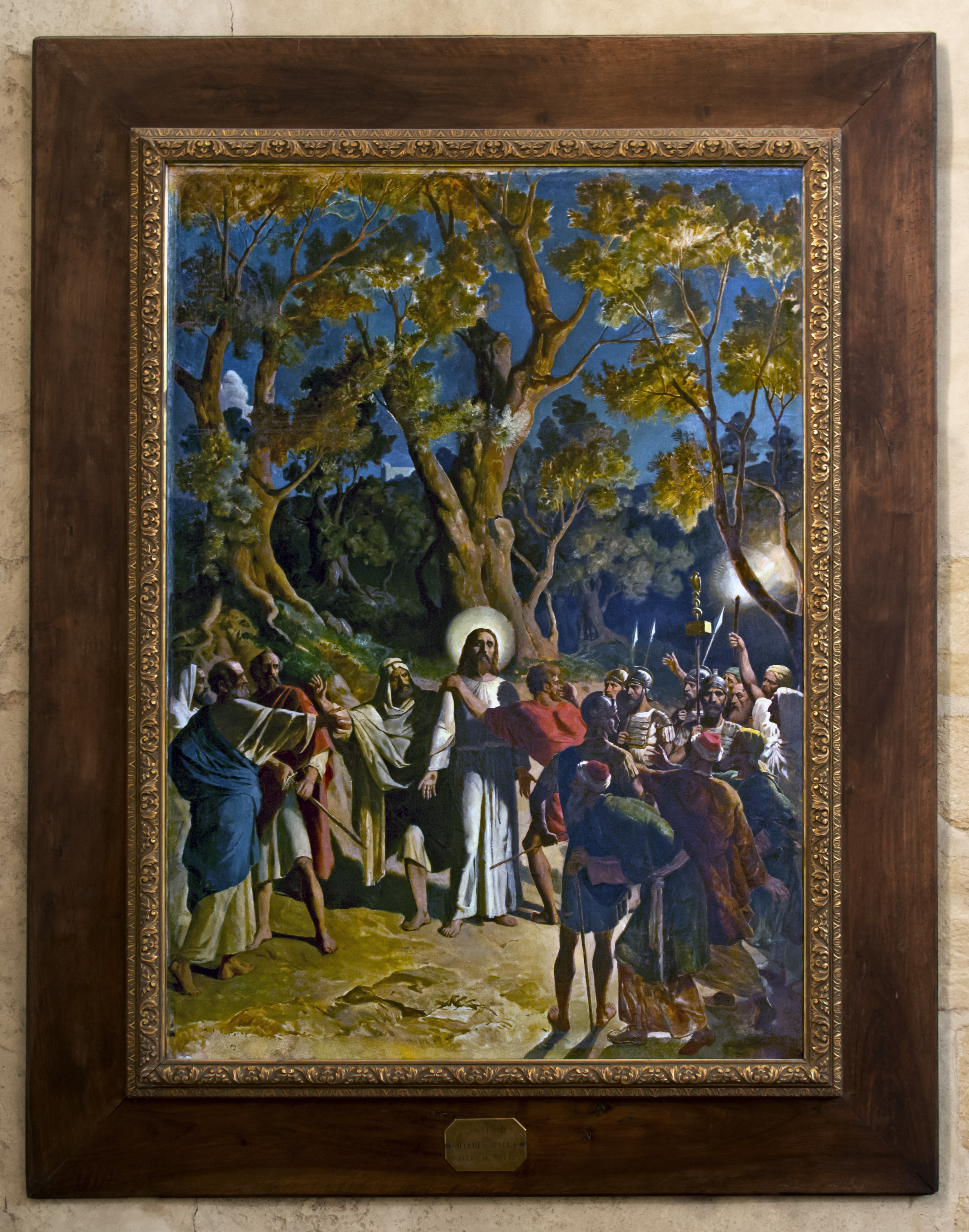 Church Saint-Félix of Saint-Félix-Lauragais. The kiss of Judas by Gilbert de Séverac.